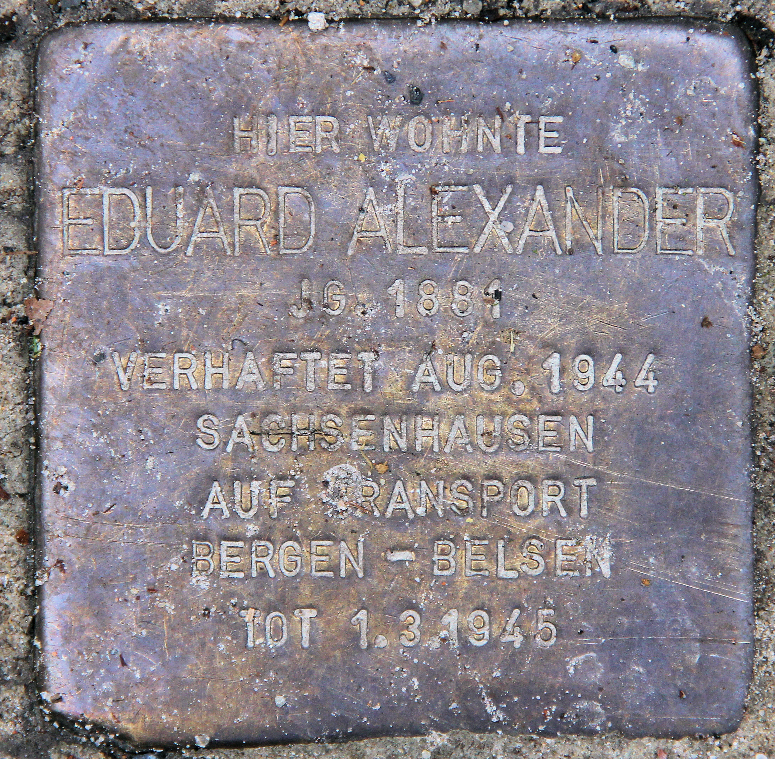 "Stolperstein" (stumbling block), Eduard Alexander, Cimbernstraße 13, Berlin-Nikolassee, Germany Koordinate:52°25′32″N 13°11′44″E / 52.42556°N 13.19556°E